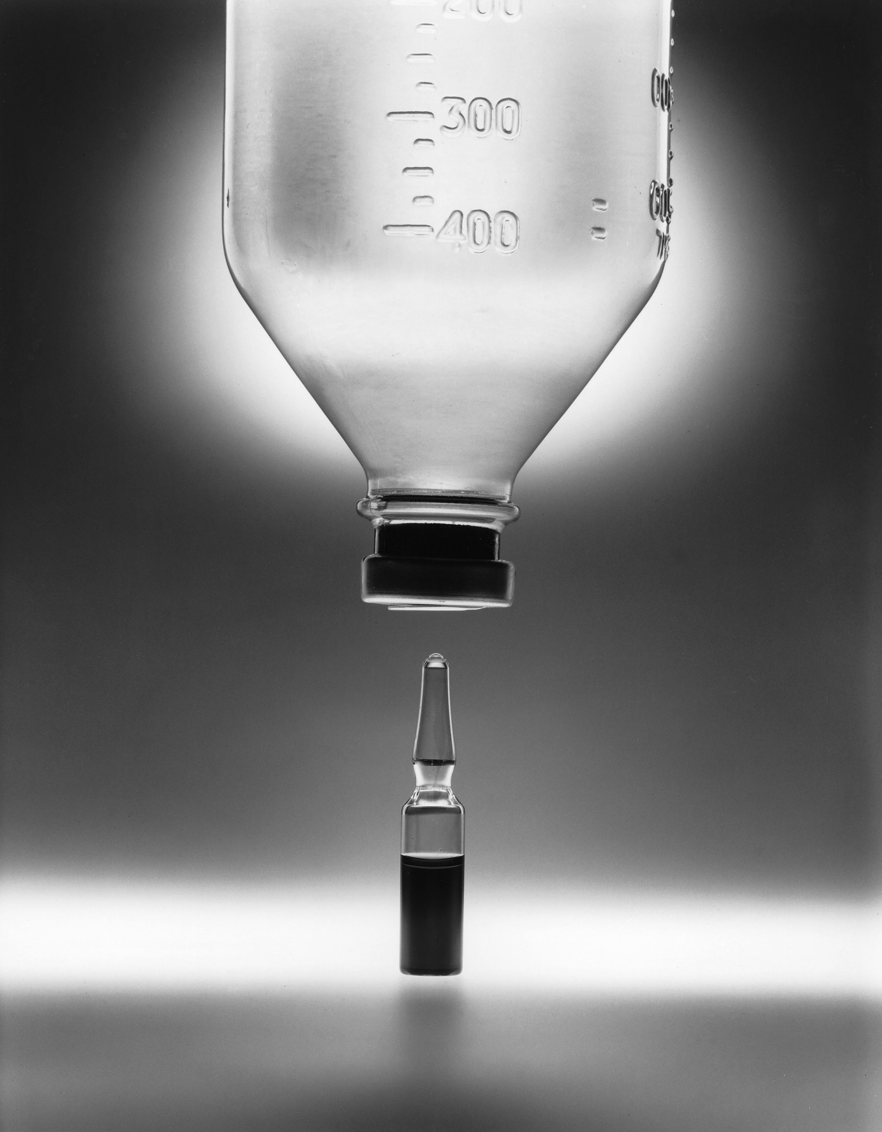 Title Chemotherapy Vials Description Variety of chemotherapy drugs in a dripping IV bottle. Topics/Categories Treatment, Chemotherapy Type B&W, Photo Source National Cancer Institute